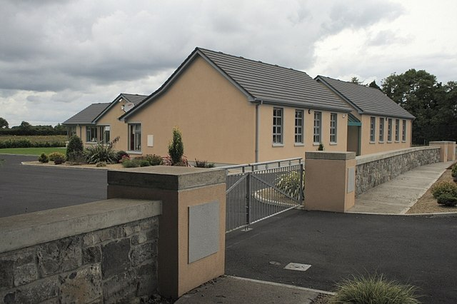 Primary School Dalystown primary school.